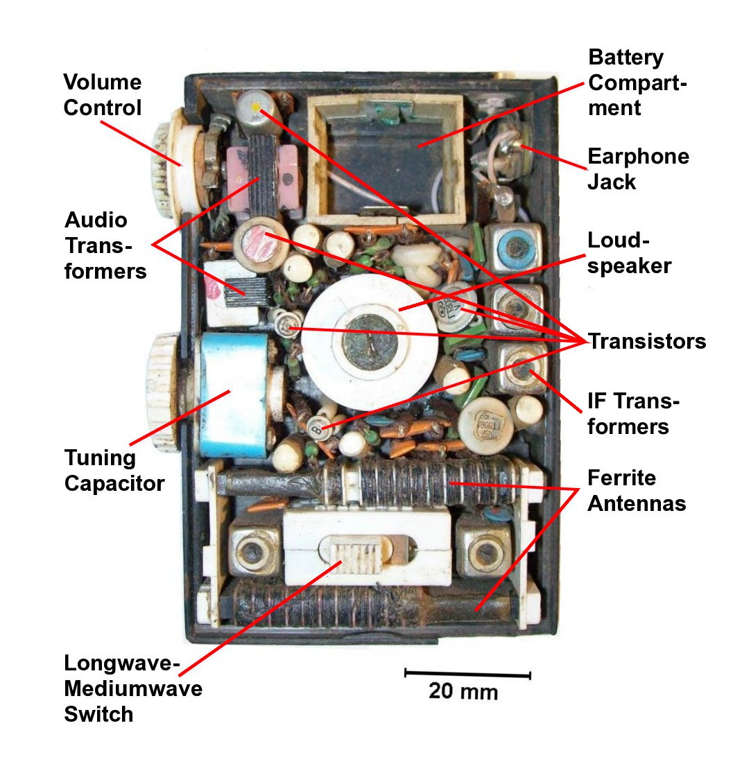 Pocket transistor radio, late 1960s to 1970s, with 5 germanium transistors, that received long wave and medium wave (AM broadcast) bands. View with back open, showing parts. Powered by 2 button cells supplying 3V (removed).